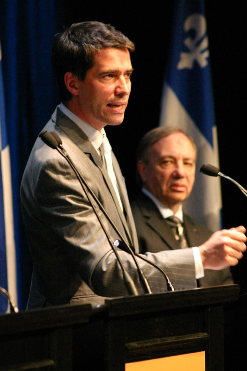 André Boisclair during the Parti Québécois leadership election in 2005. Louis Bernard is behind him.